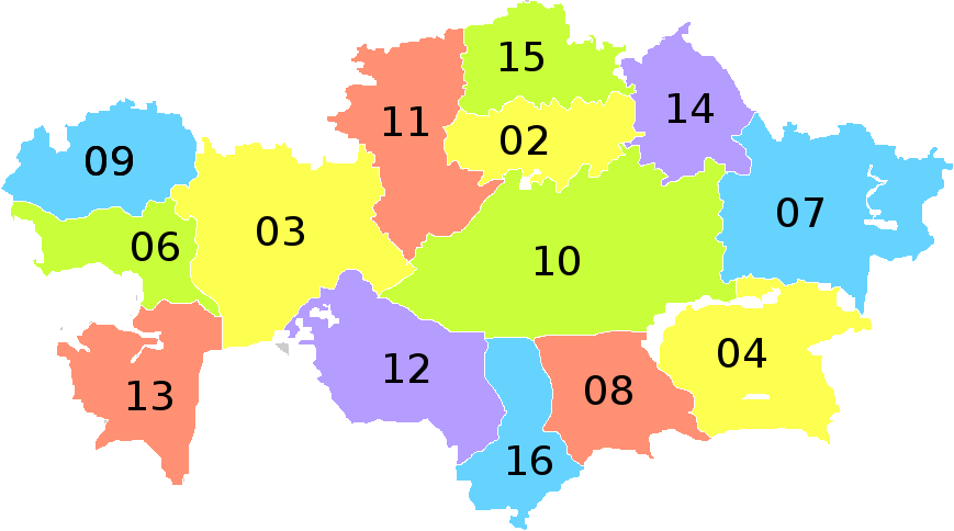 Map of areas of Kazakhstan with postcodes